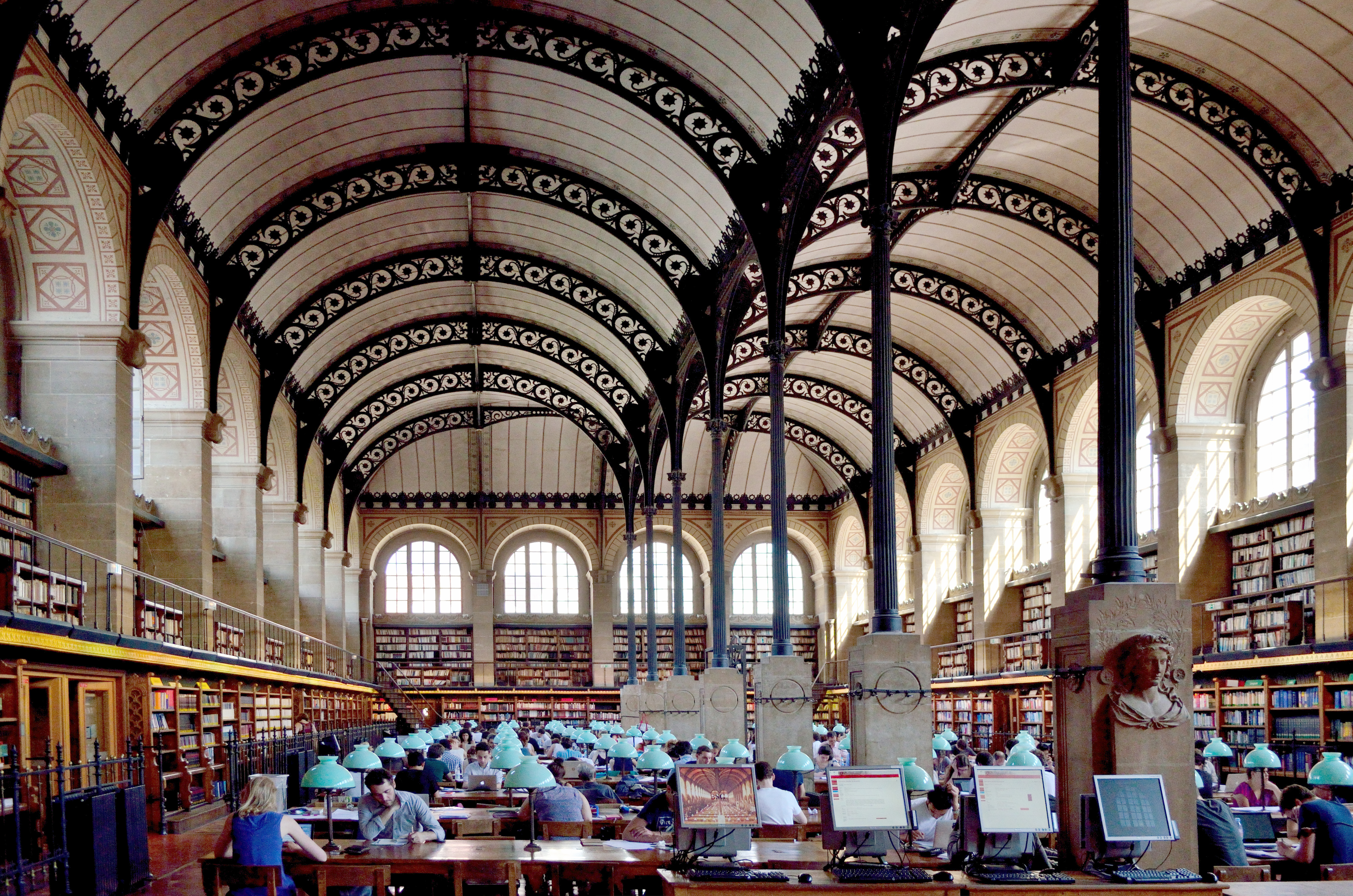 Bibliotheque Sainte Genevieve, Paris.